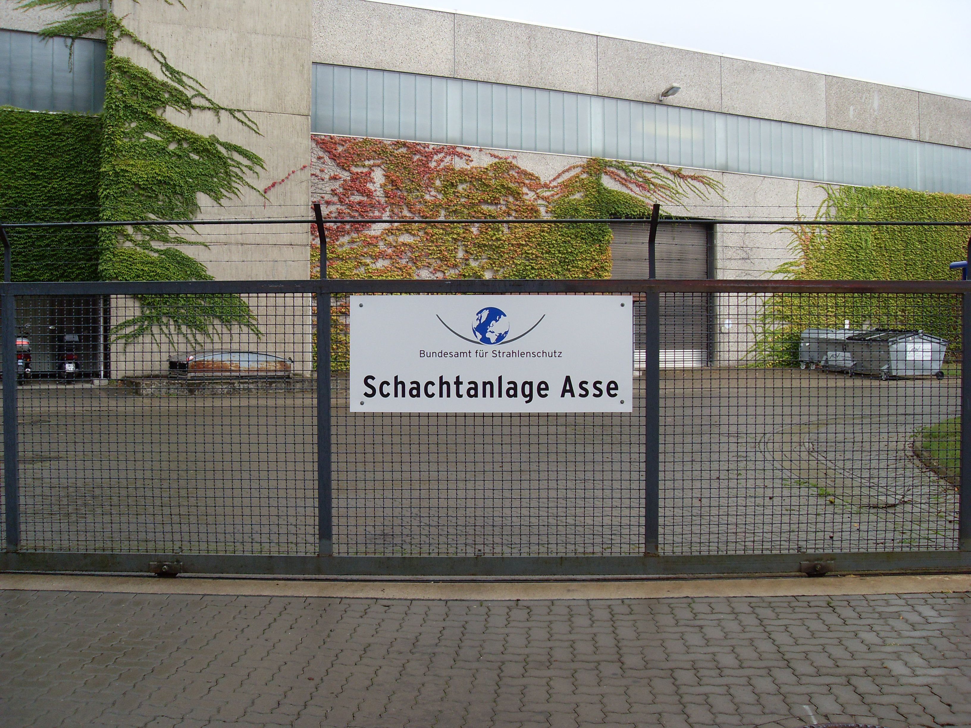 Bundesamt für Strahlenschutz is the new operator of the salt mine